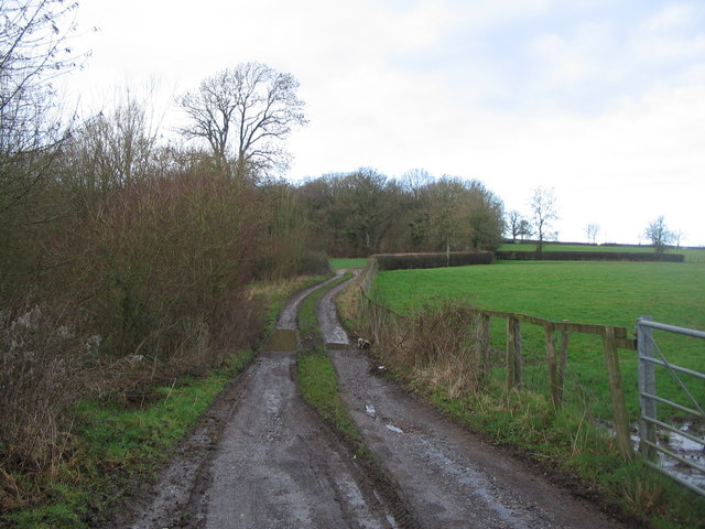 Footpath to Postlebury Wood. A view looking to the northwest along the public footpath to Postlebury Wood.